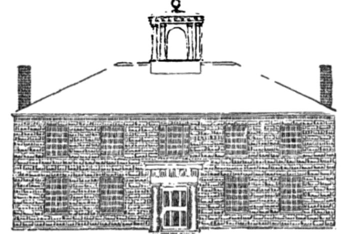 Gardiner Lyceum building. Gardiner, Maine. Erected 1822. Burned 1870